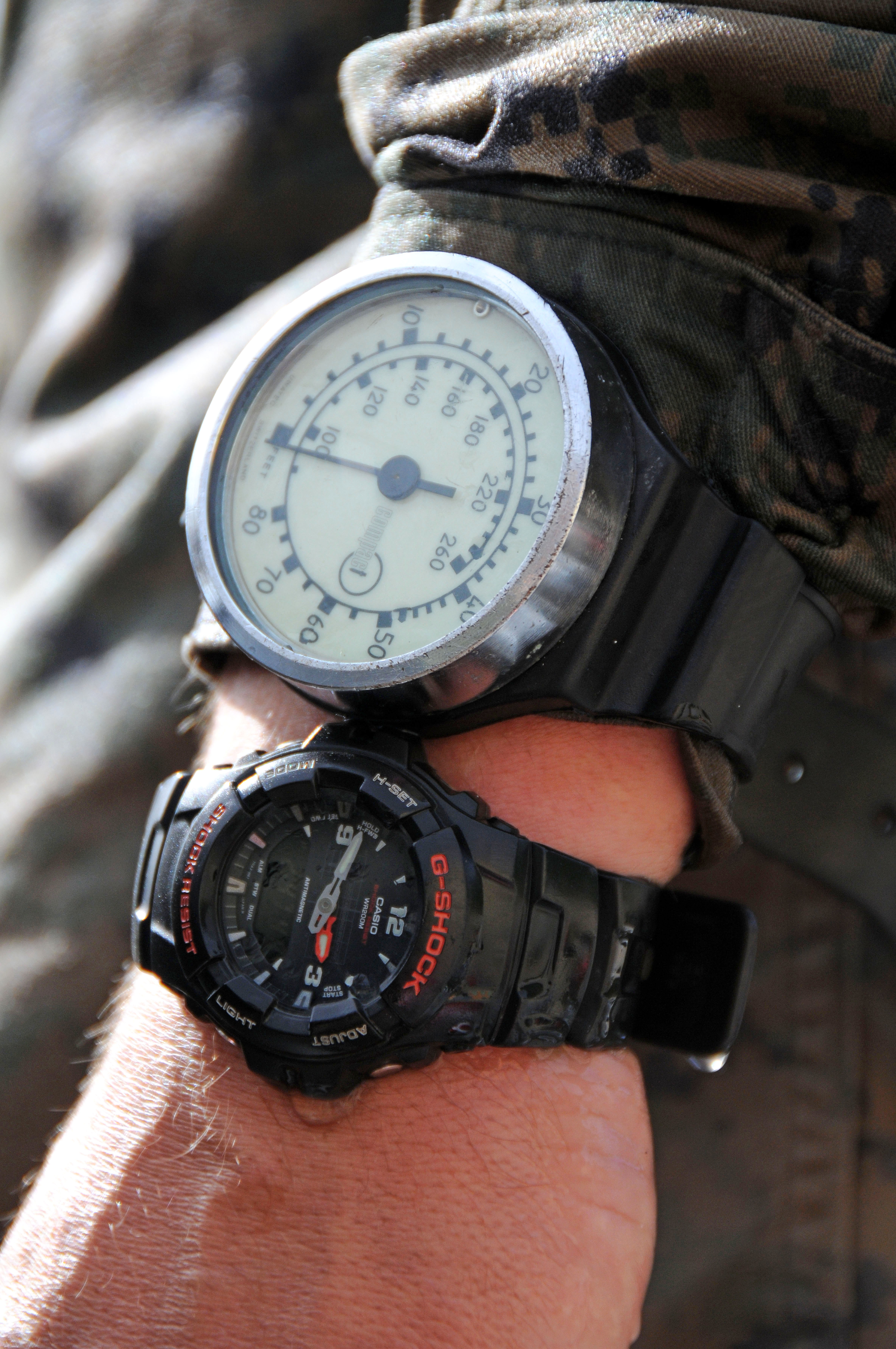 Every Marine diver has a watch and a depth gauge to monitor their time underwater and how deep they are.